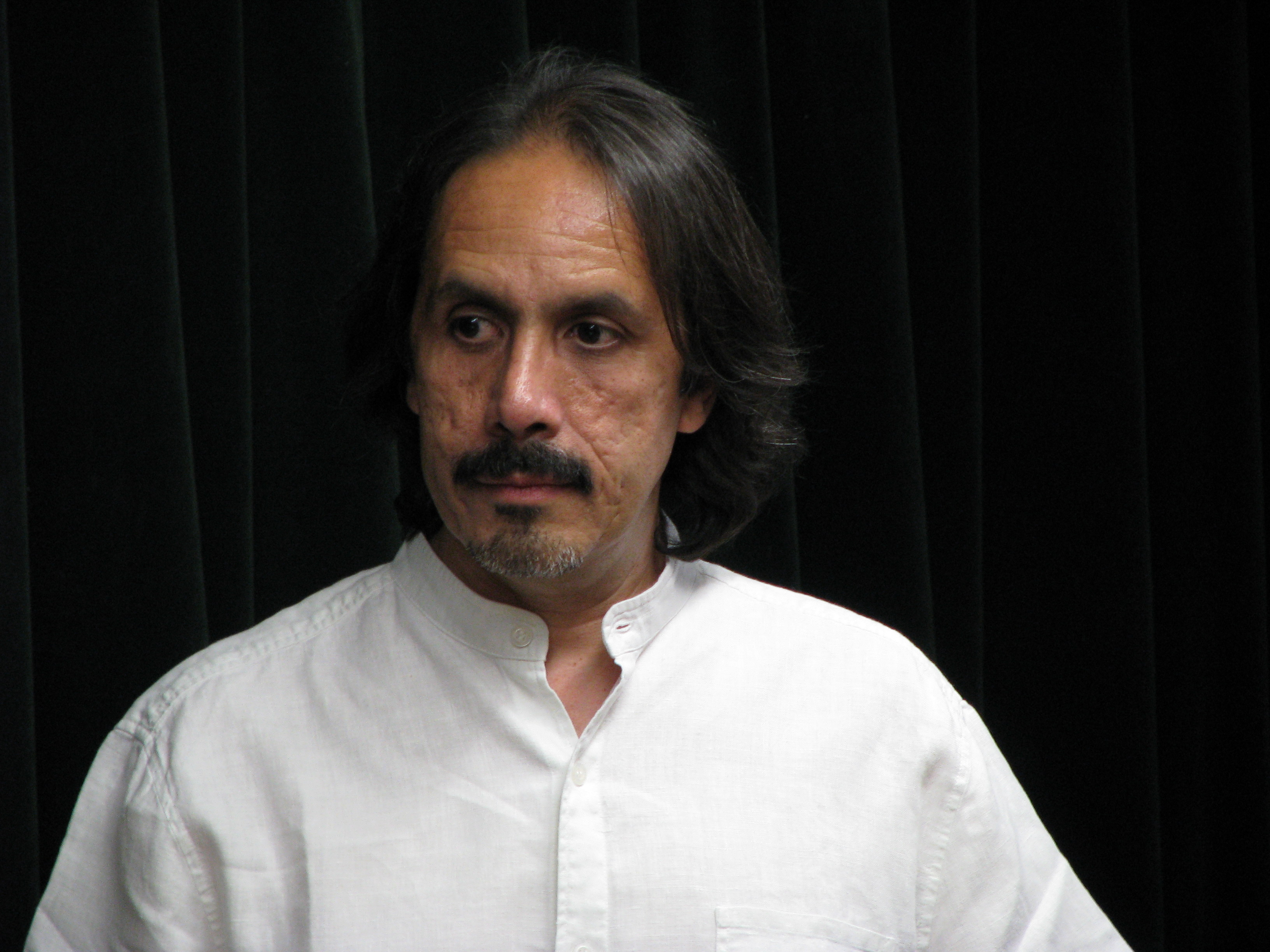 Gerardo Beltrán (b. 1958), Mexican writer and translatoe